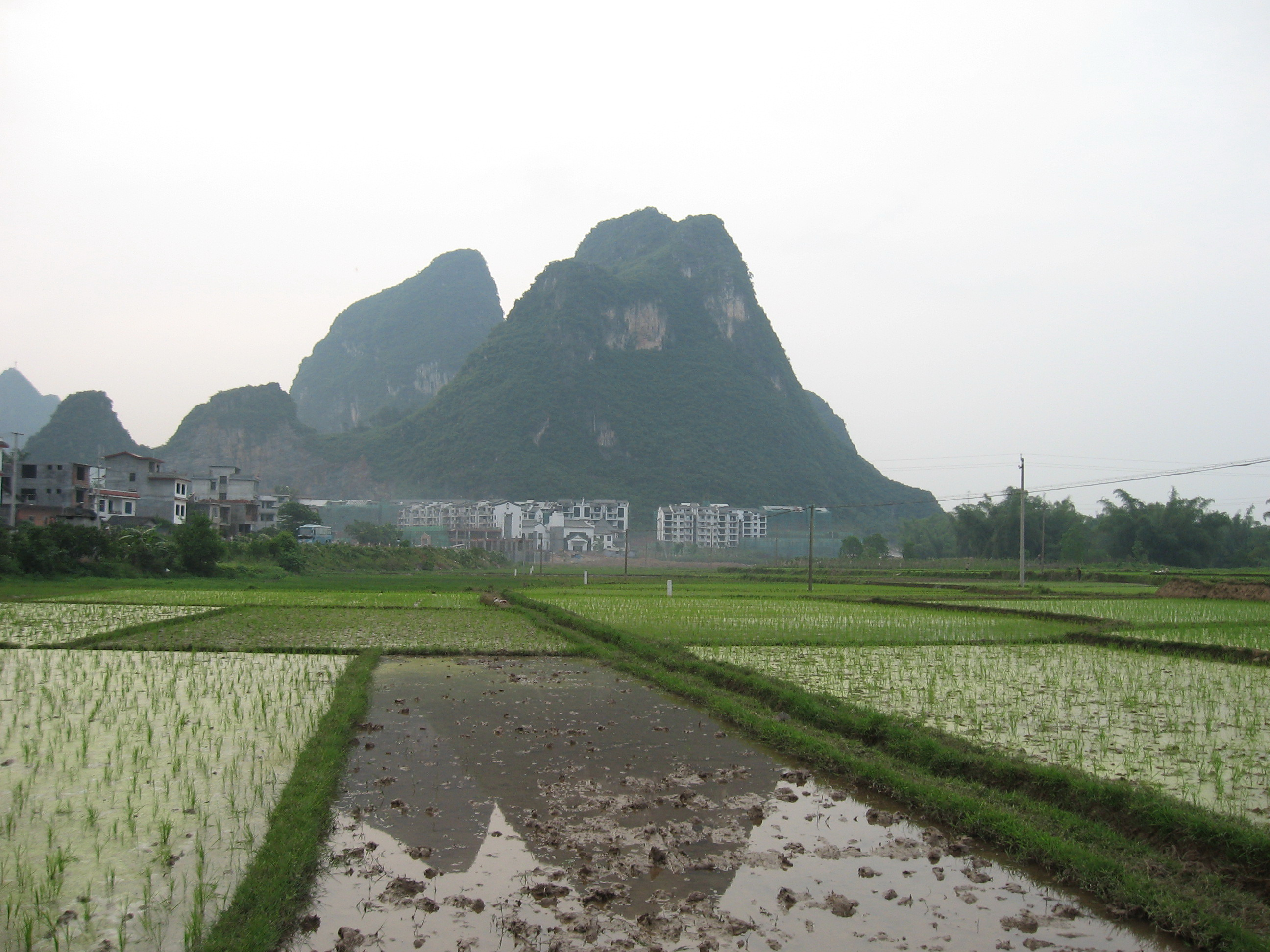 Rice fields - China